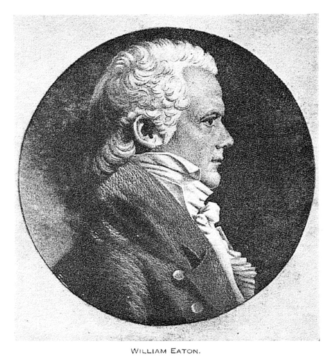 William Eaton, United States Army officer